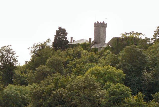 Penllyn Castle, Cowbridge. Soaring high above the surrounding landscape the castle commands views befitting any castle.